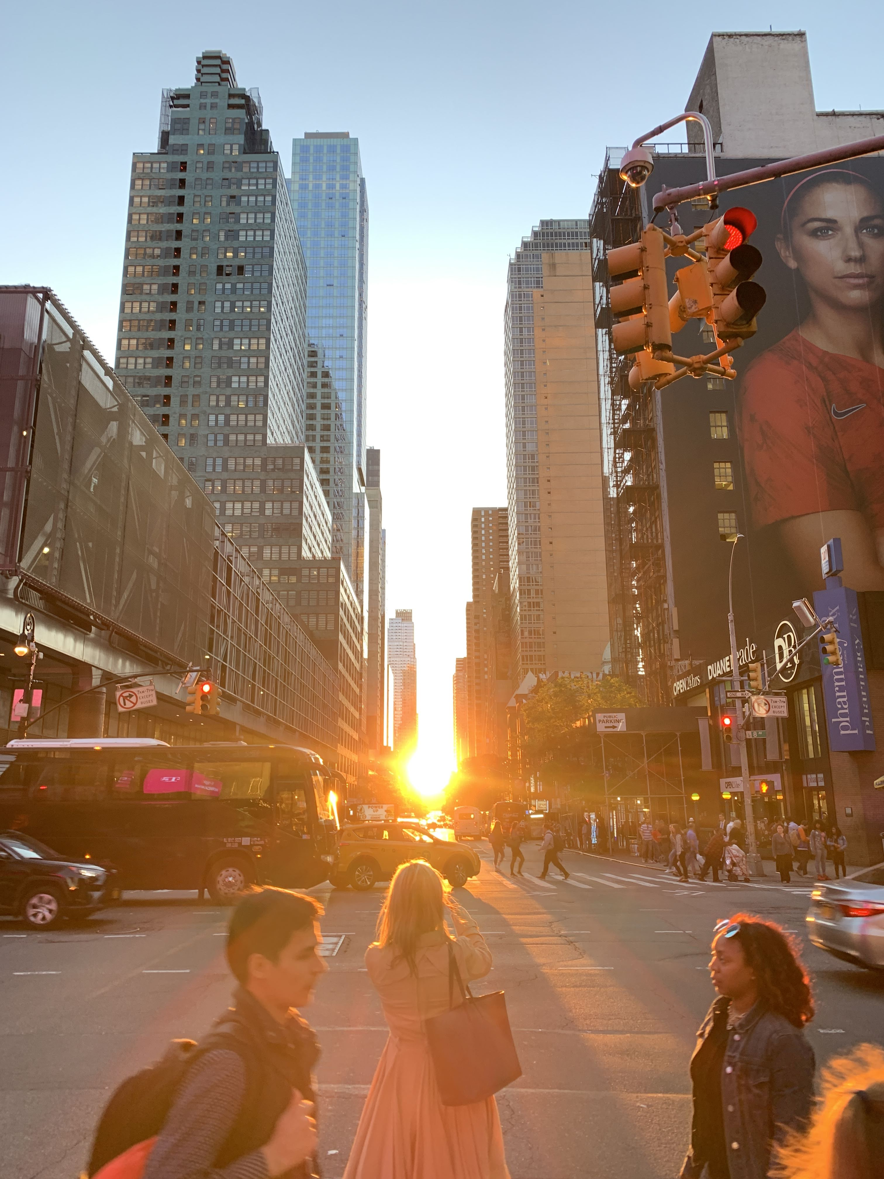 Manhattan sunset on June 3.